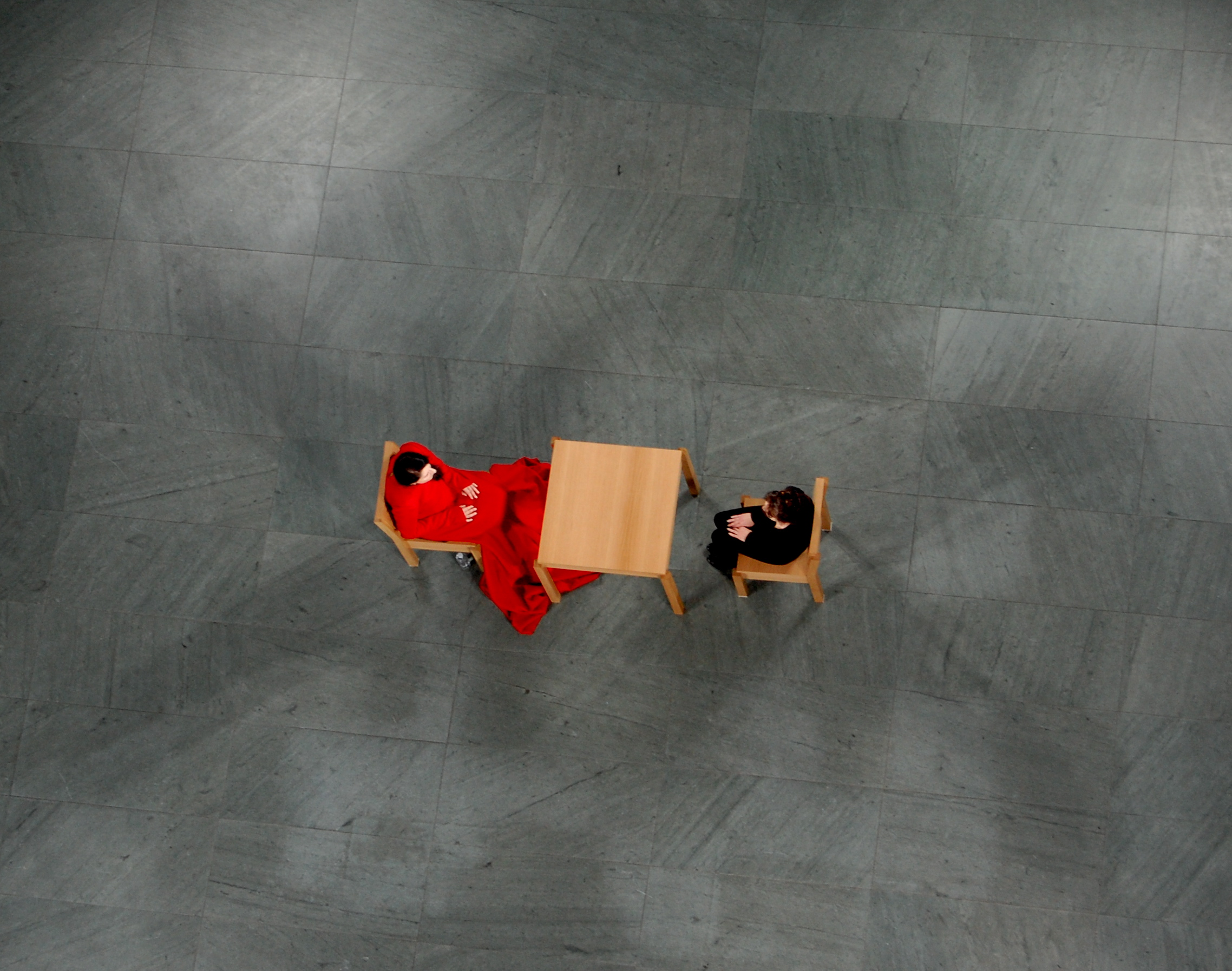 "Marina Abramović: The Artist Is Present," at the Museum of Modern Art, New York, through May 31, 2010. Opening preview: March 9, 2010